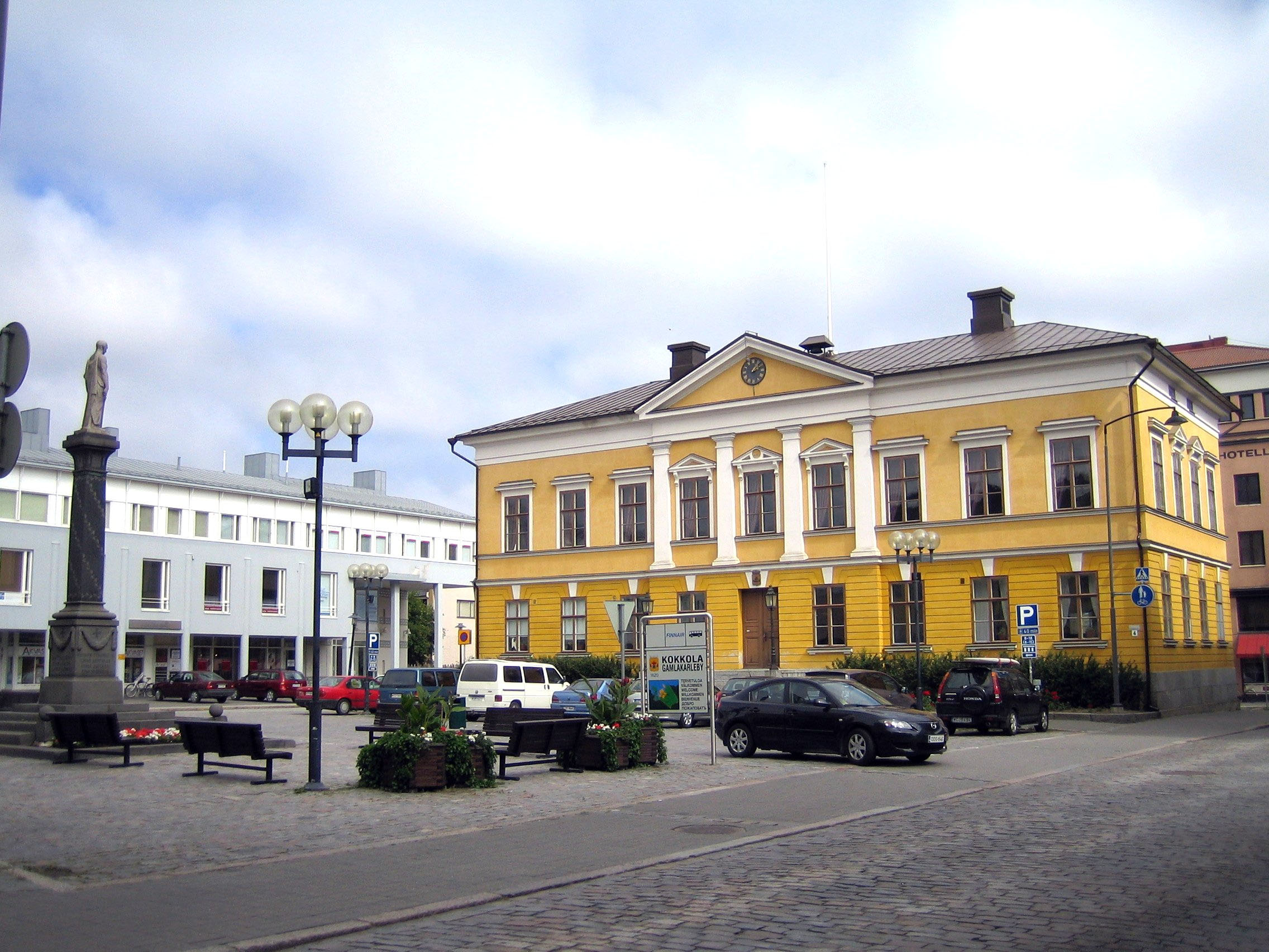 The old townhall of Kokkola, Finland. It was built in 1837 and designed by architect Carl Ludvig Engel